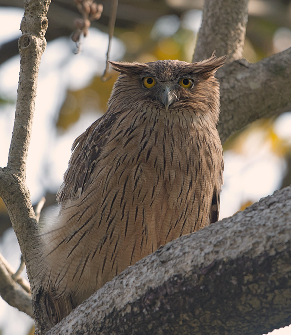 Brown Fish Owl (Ketupa zeylonensis), a large typical owl resident of the sub tropical fore3sts of Indian an Srilanka survives almost exclusively on fish, frogs and aquatic creatures, though an occasional small bird or reptile might also form its food. Seen in Corbett National Park, Uttarakhand, India.